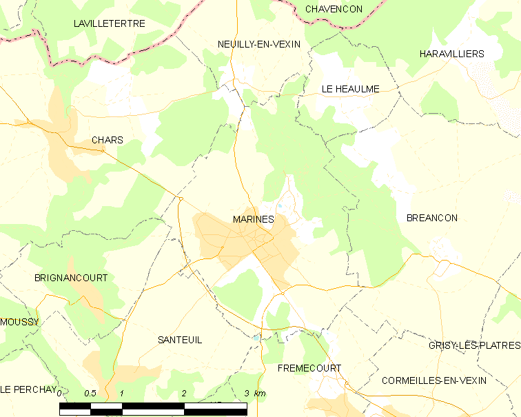 Map of French municipality Marines